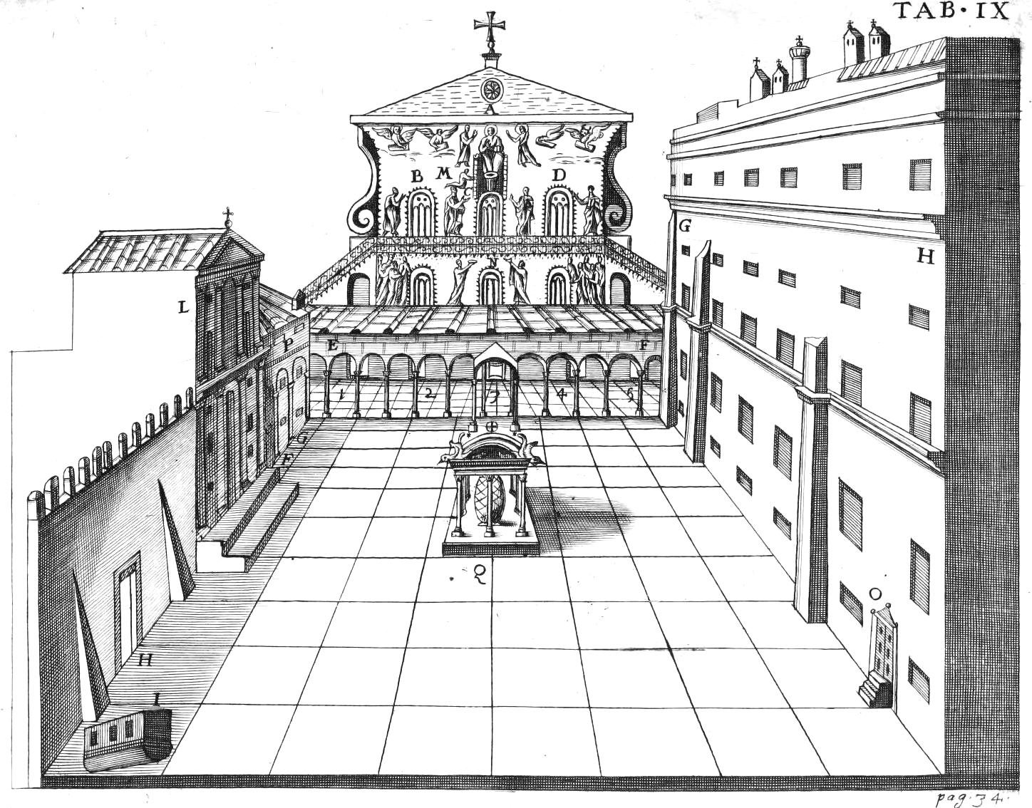 Engravings of (old) Saint Peter's Basilica in Rome.